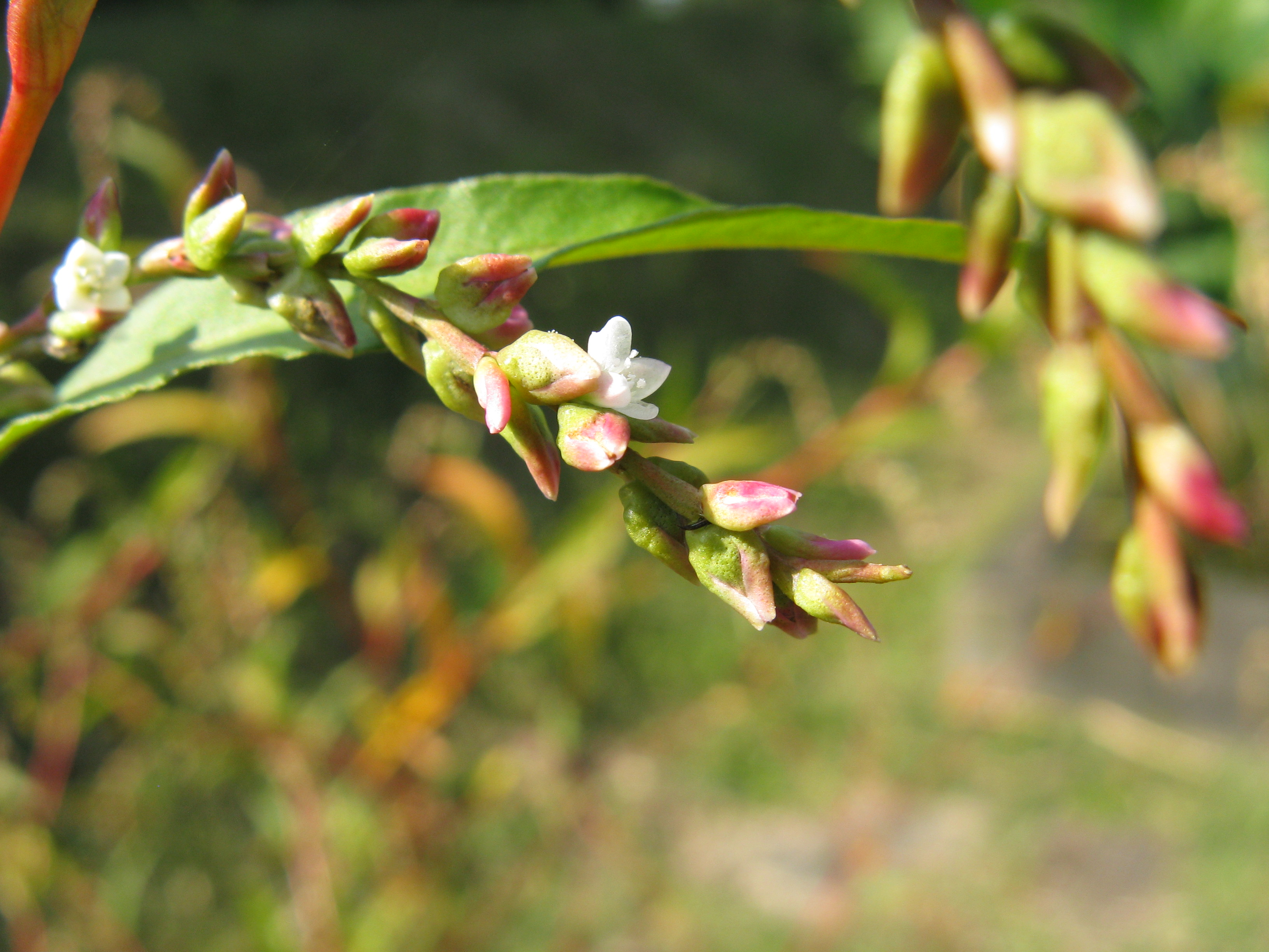 Scientific name Polygonum hydropiper